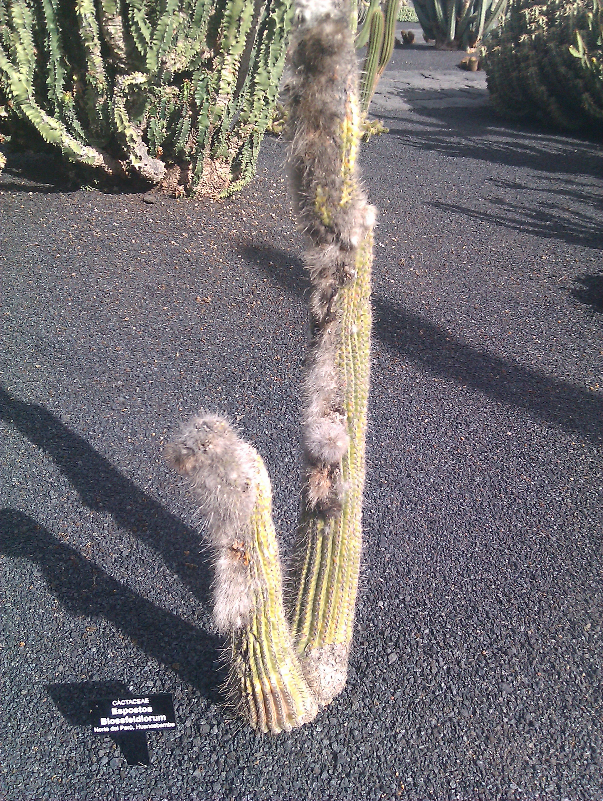 Photo taken at Jardín de Cactus, Lanzarote, Spain. Espostoa blossfeldiorum.